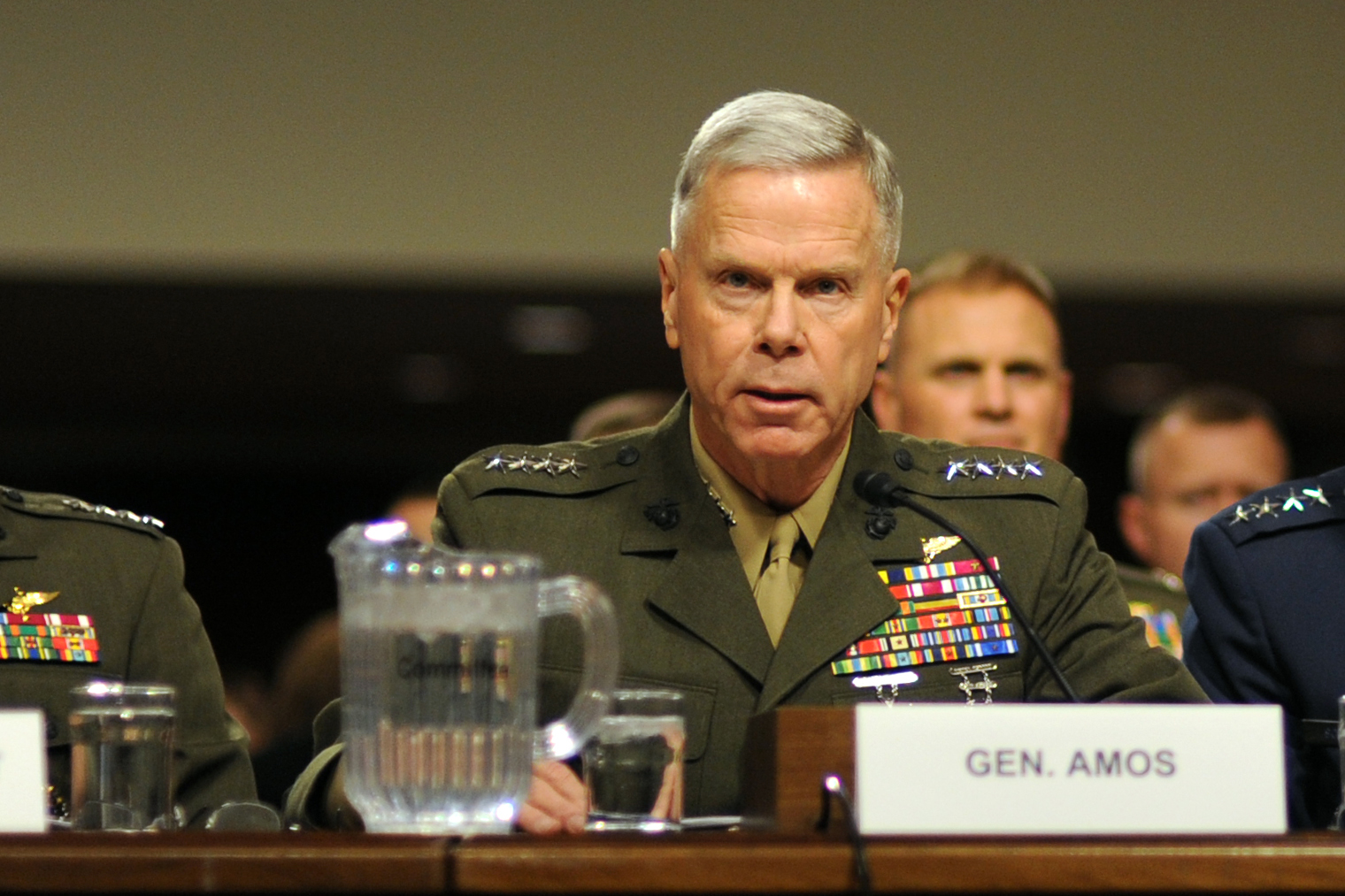 Marine Corps Commandant Gen. James Amos testifies on Capitol Hill before the Senate Armed Services Committee's hearing on the military's "don't ask, don't tell" policy on Dec. 3, 2010.